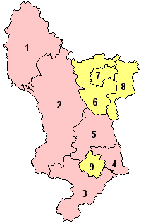 Sub-divisions of Derbyshire - as recommended by First round of Banham Commission